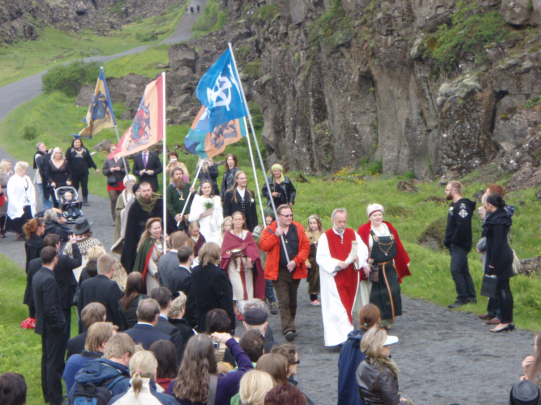 A photograph showing contemporary Icelandic pagans, members of Ásatrúarfélagið, assembling at Þingvellir for Þingblót (Thing blót) in the summer of 2009.